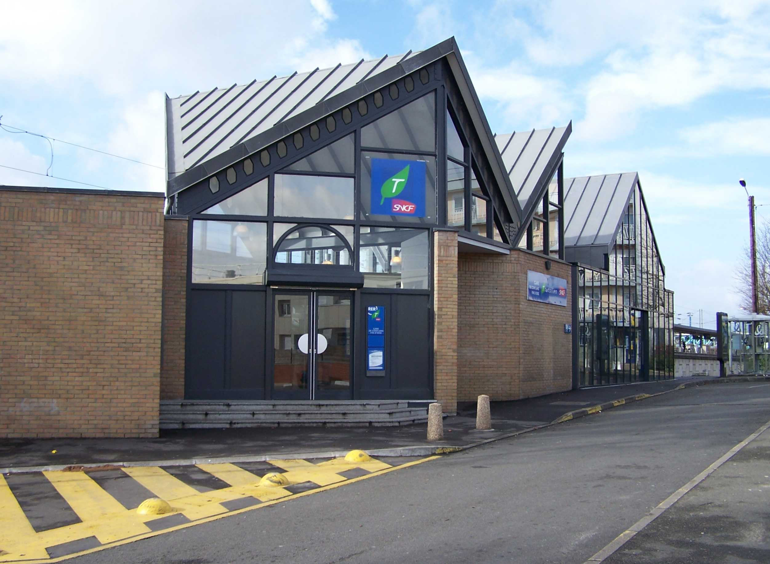 Railway station of Conflans Fin d'Oise in Conflans-Sainte-Honorine (Yvelines, France)